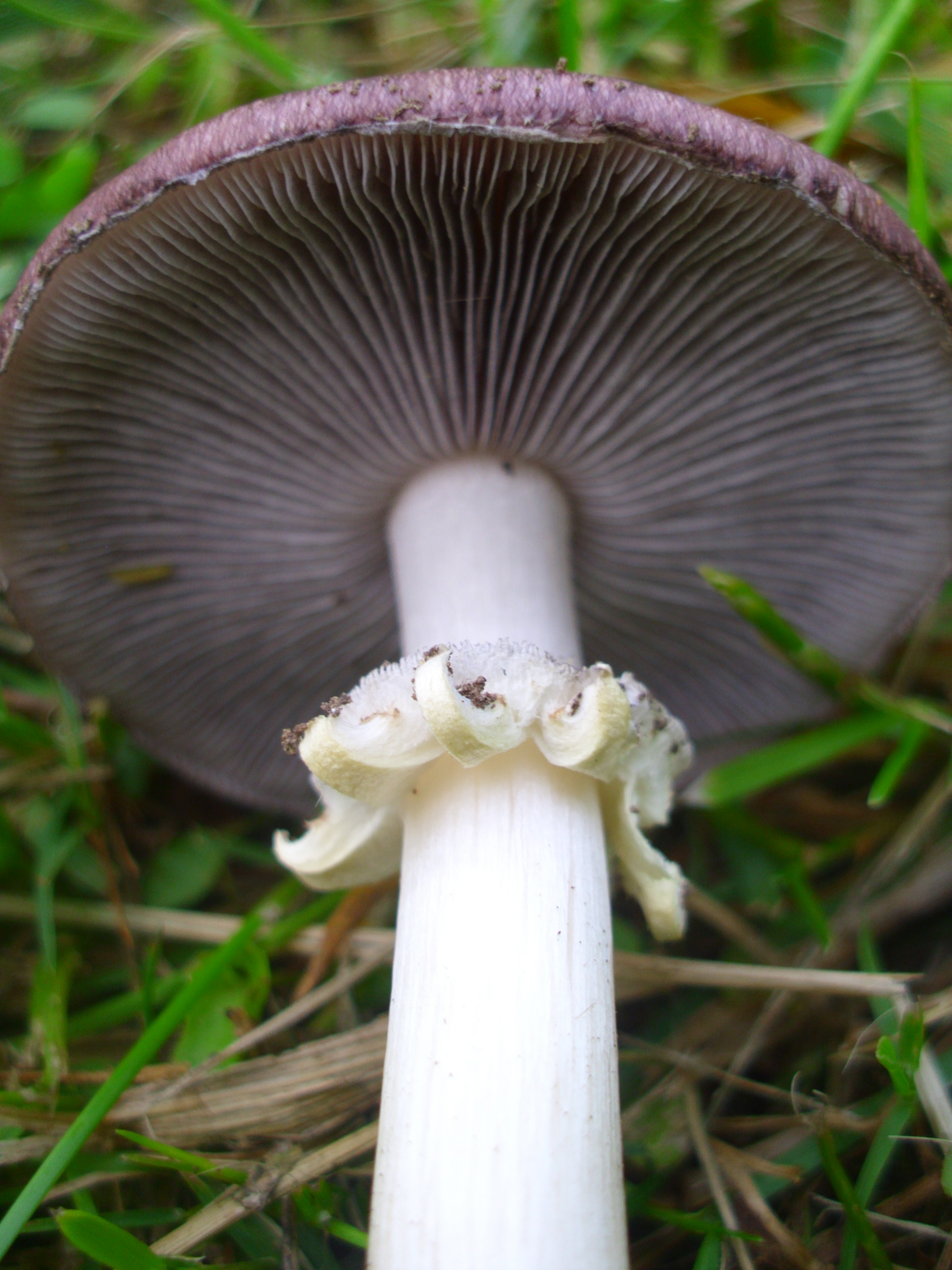 Stropharia rugosoannulata Farl. ex Murrill Image location: Bell Co., Kentucky, USA Found along banks of Cumberland river growing from woody debris. Recognized by sight For more information about this, see the observation page at Mushroom Observer.